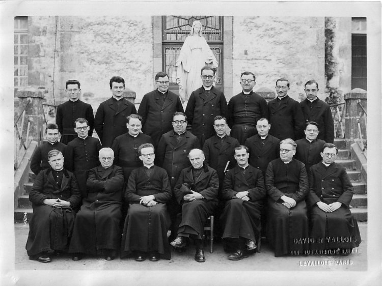 Teachers of 1954, Chavagnes.